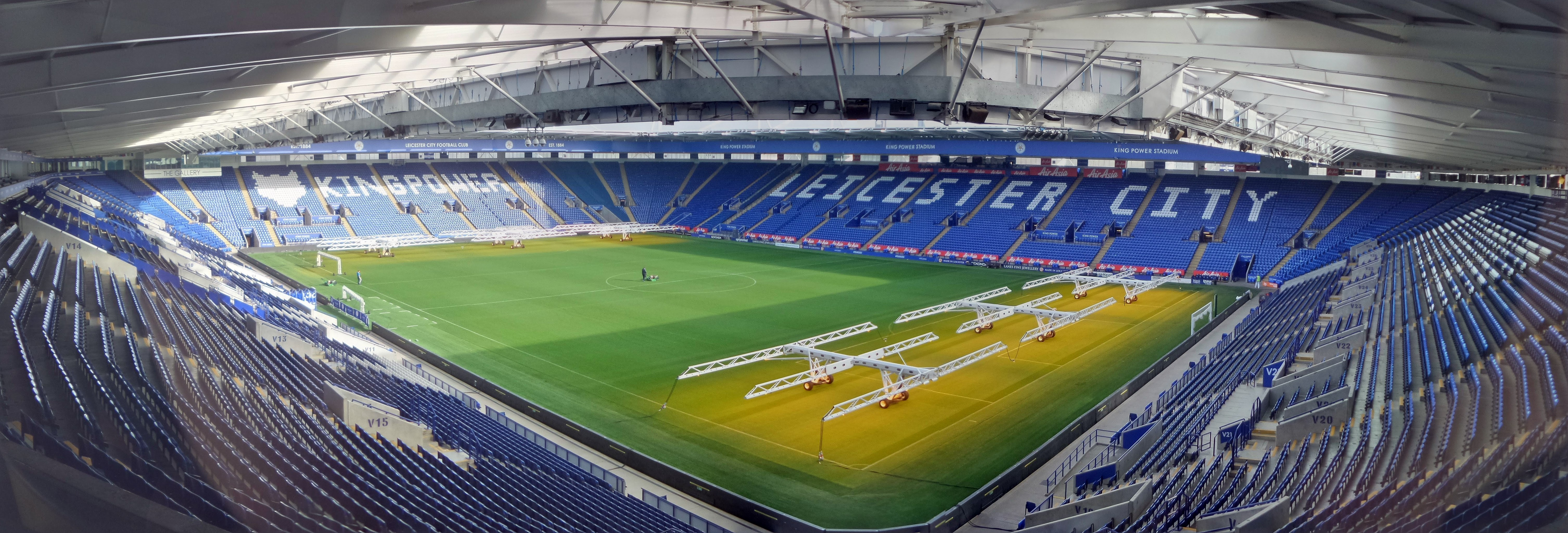 Inner wide view of the King Power Stadium, Leicester, United Kingdom